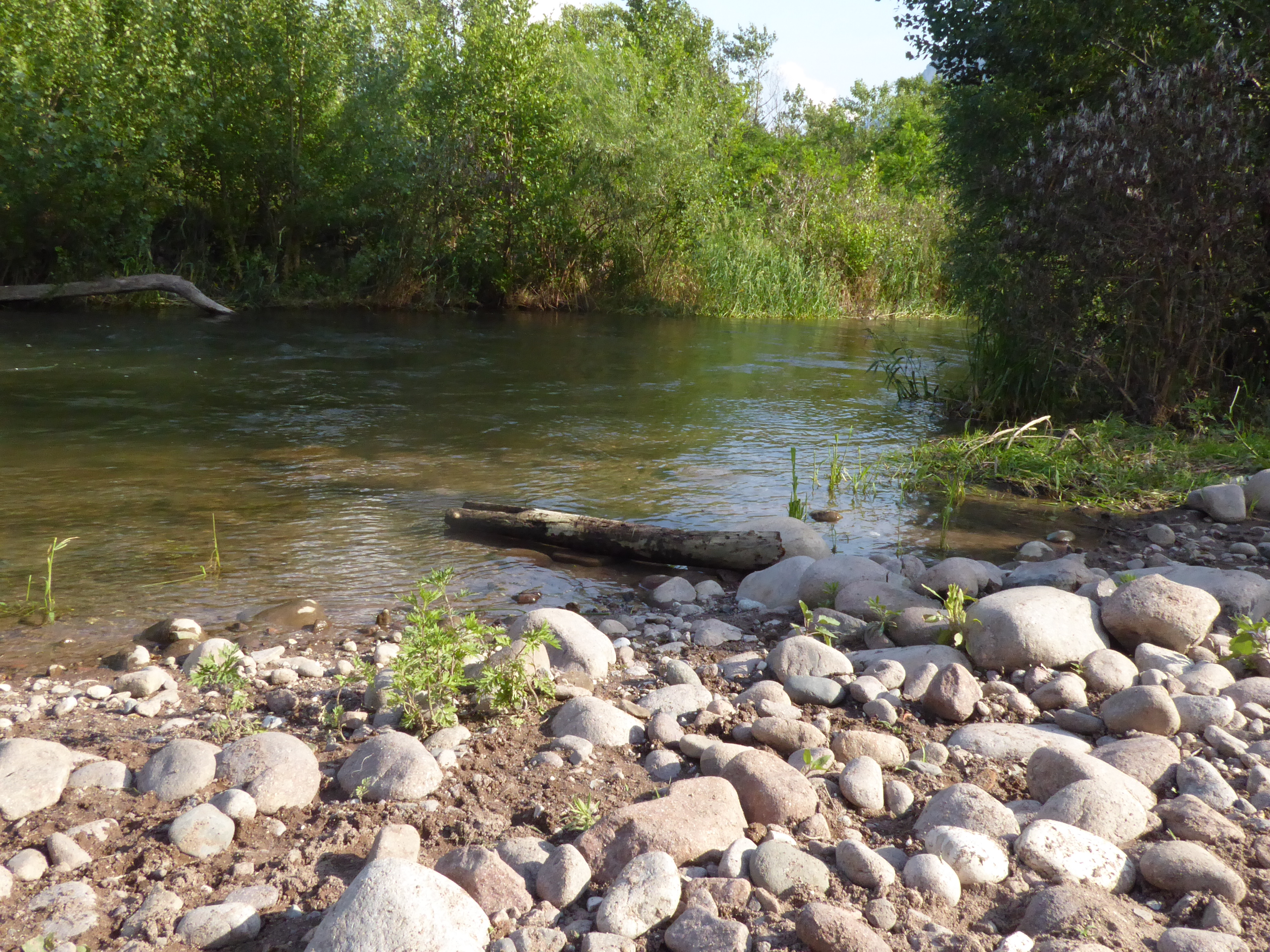 Panorama of the natural reserve "Biotopo Foci dell'Avisio" in Trentino (Italy)